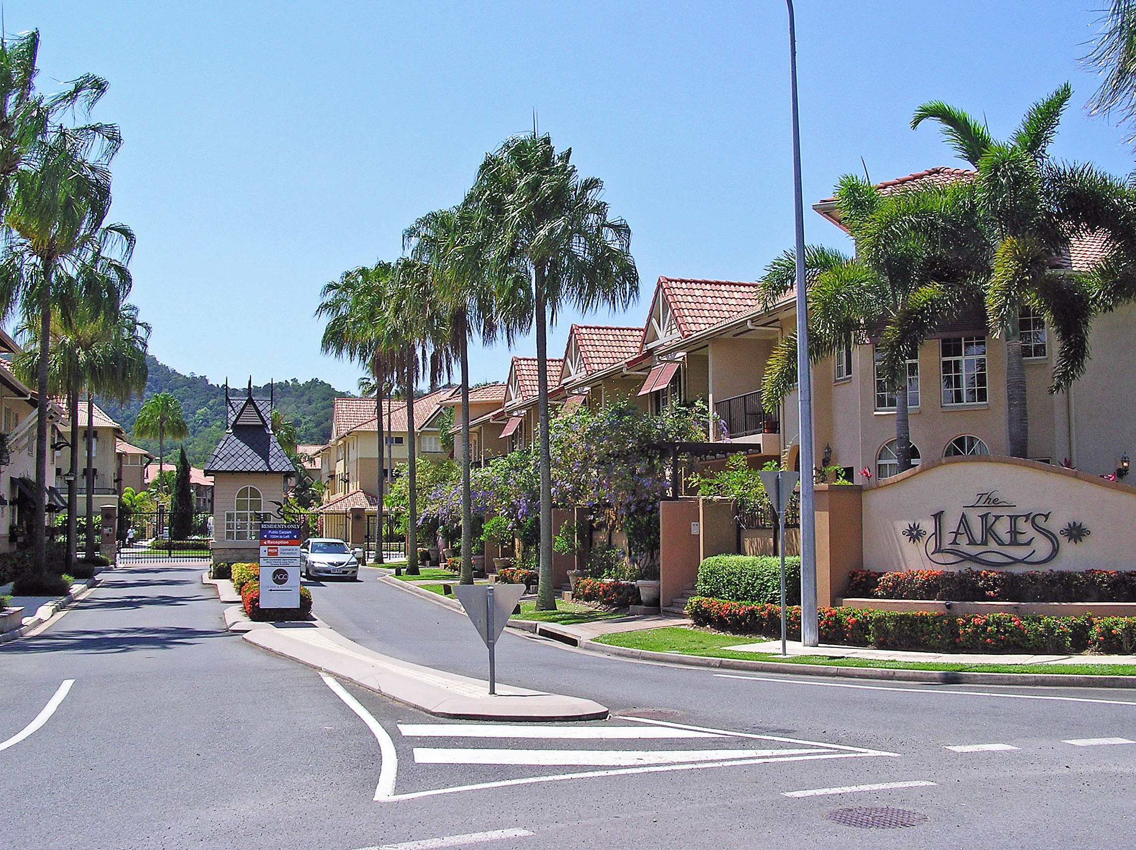 The Lakes Resort in Northern Queensland city Cairns